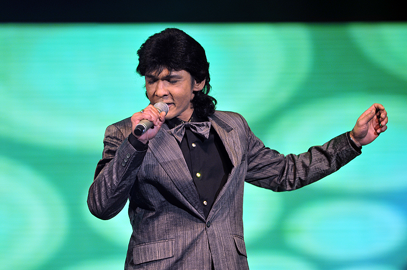 Malaysian actor and singer Jamal Abdillah appearing on Anugerah Juara Lagu 23.